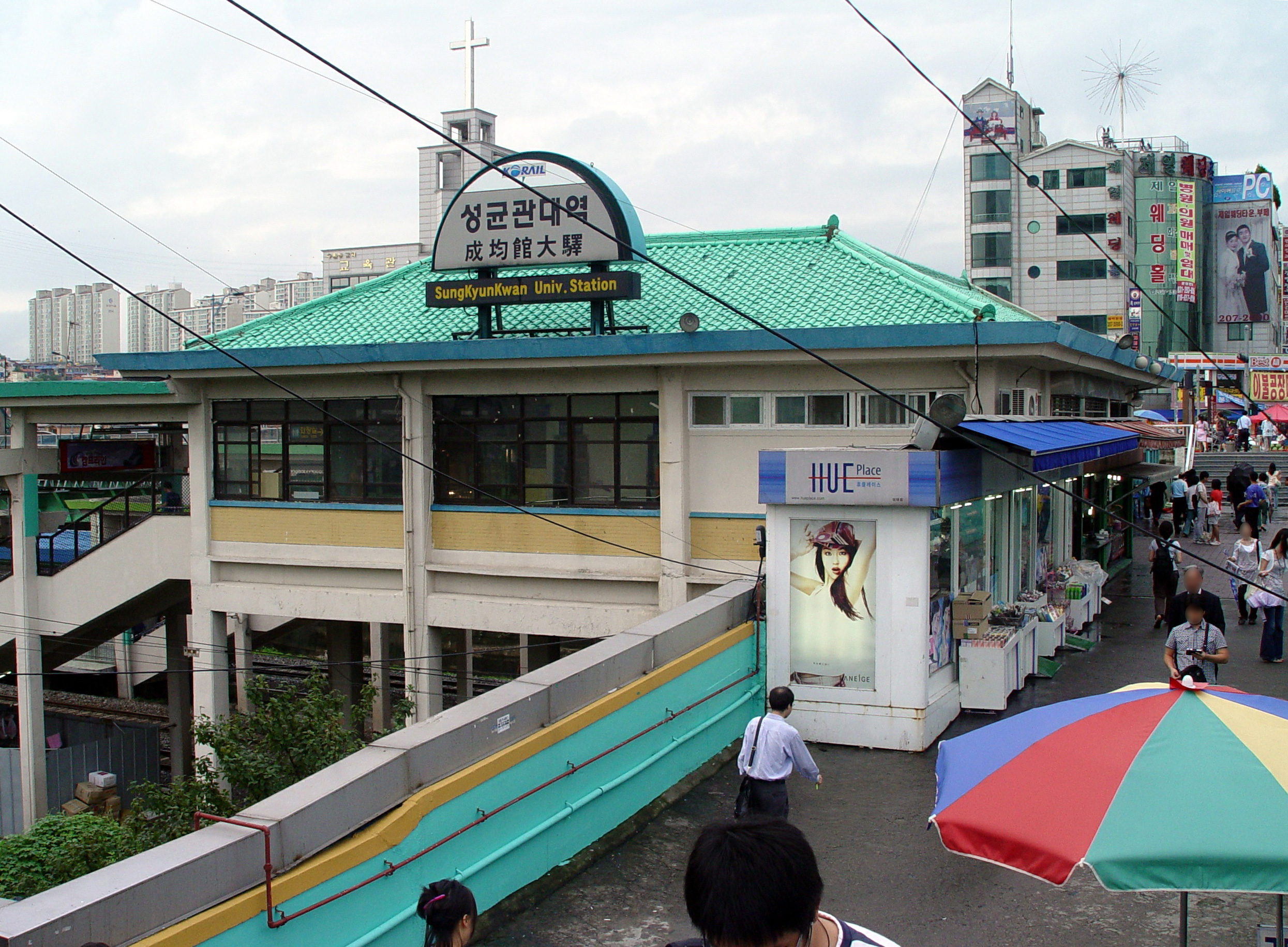 Sungkyunkwan Station